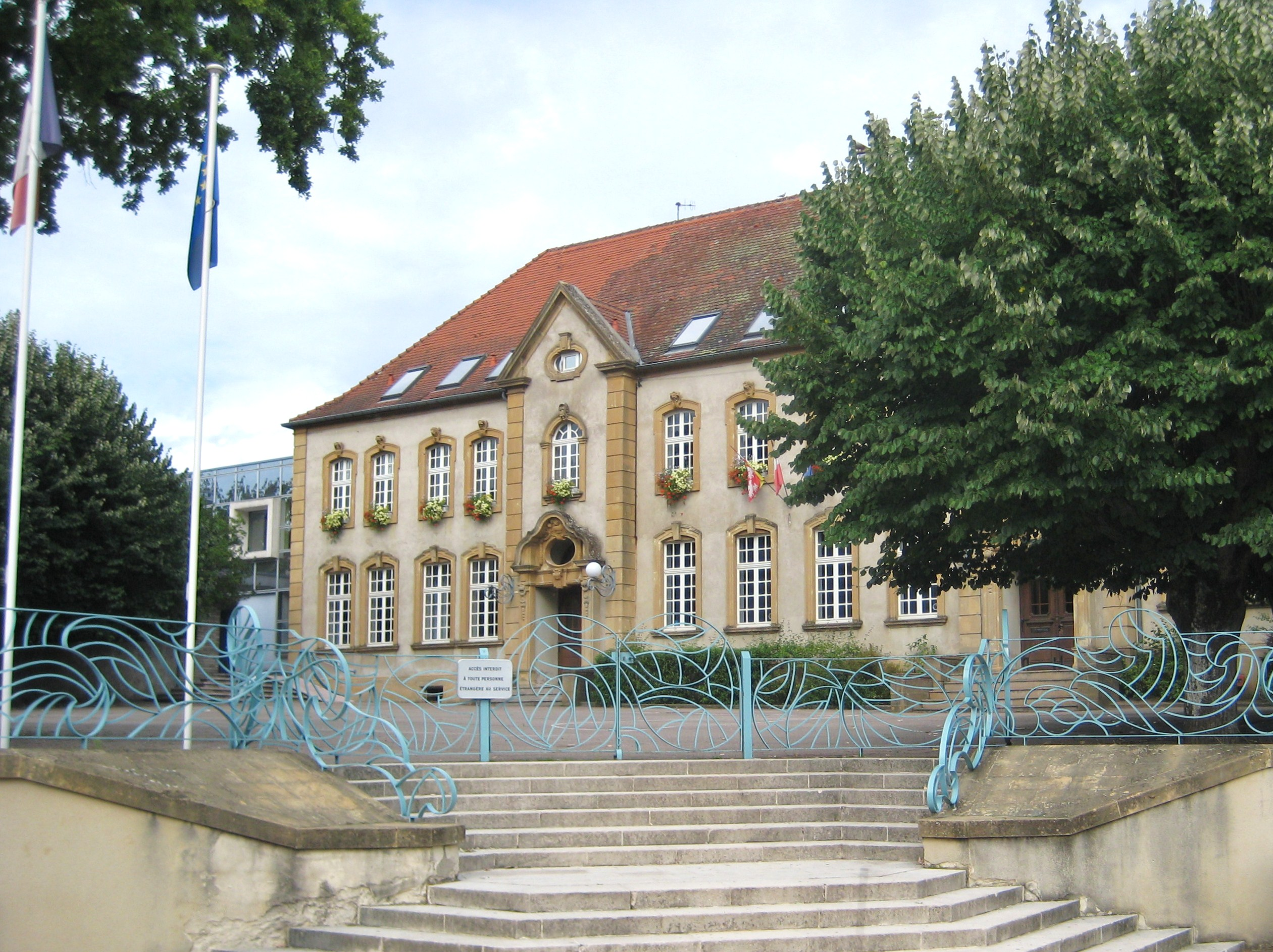 Description chateau grignan mairie Moulins Metz Date6 September 2011Sourcemon appareil photoAuthorAimelaimePermission(Reusing this file) chateau grignan mairie Moulins Metz